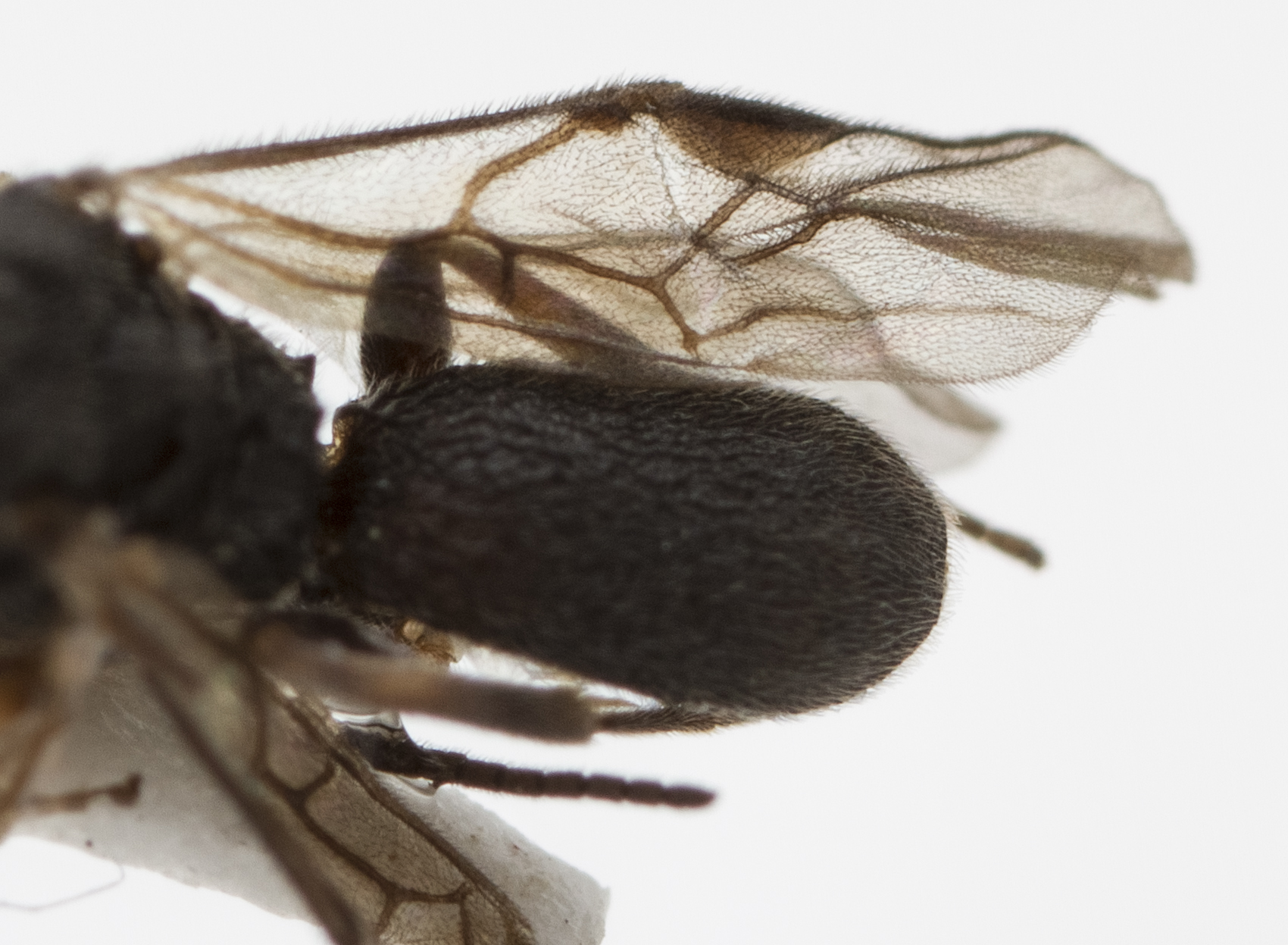 Chelonus sp. Specimen ID: 0393. Sex: Unknown. Size: 3 mm. Collection Location: USA, WI, Bayfield County. Apostle Islands National Lake Shore. Boreal woodland along Mawike Road. WGS84 46.8874N/-91.0408W. Plot: AI-5. Collection Date: 1-Aug-2014. Collector: Brick M. Fevold. Ichneumonoidea; Braconidae; Cheloninae; Chelonini; Chelonus sp. Metasomal tergites 1-3 fused into a turtleshell-like shield. No Rs+M vein (vs. Ascogaster spp.). Weak r-m vein (vs. no r-m vein in Brachistinae). Detail of forewing venation (2).